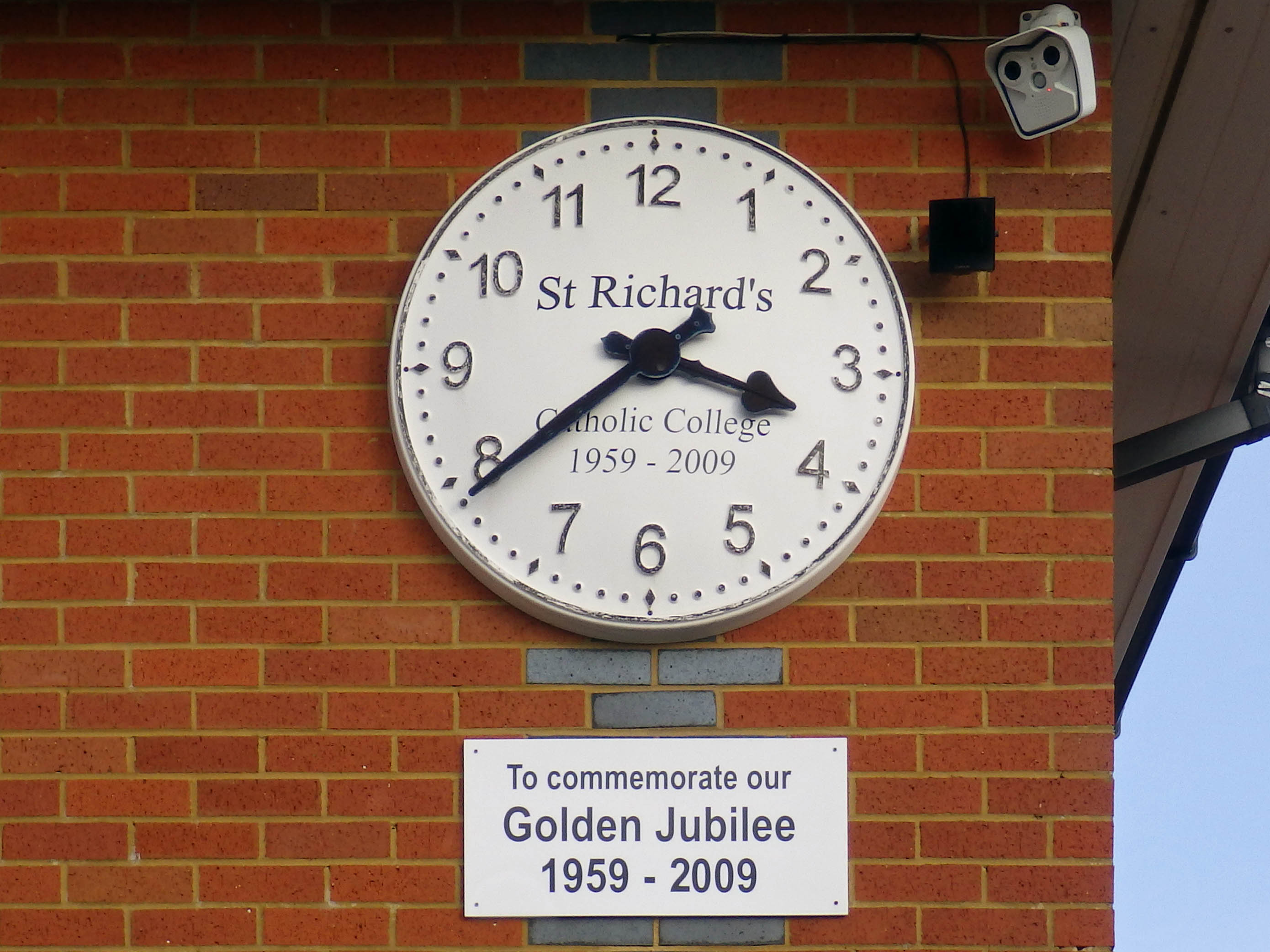 Commemorating the college's Golden Jubilee 1959-2009.